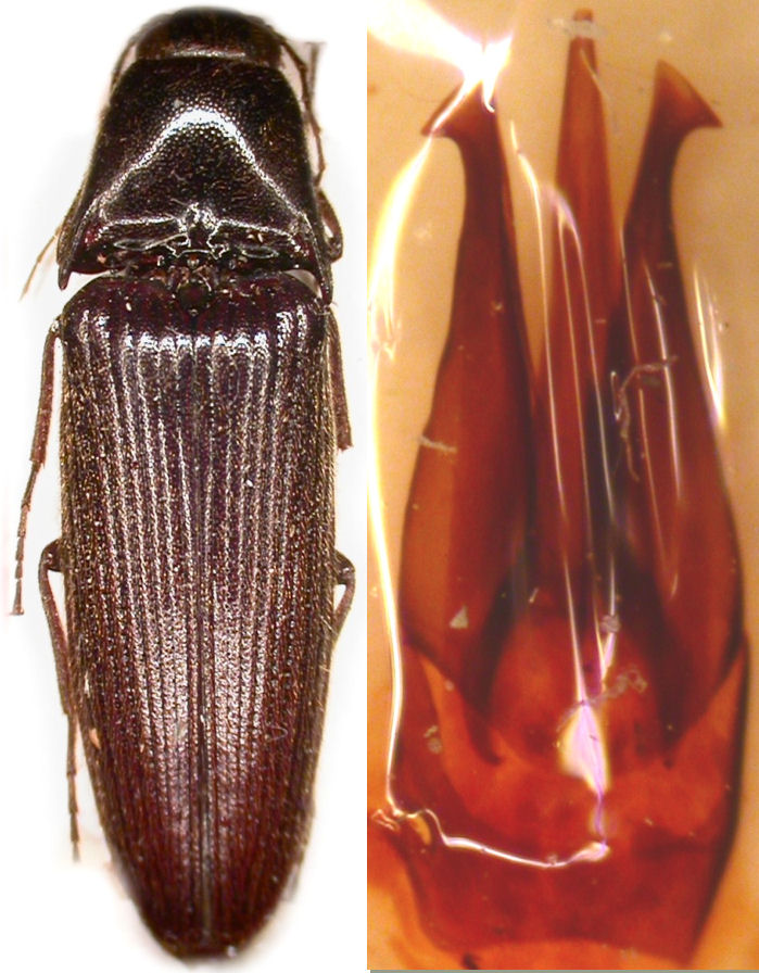 adult male holotype of Megapenthes kieneri